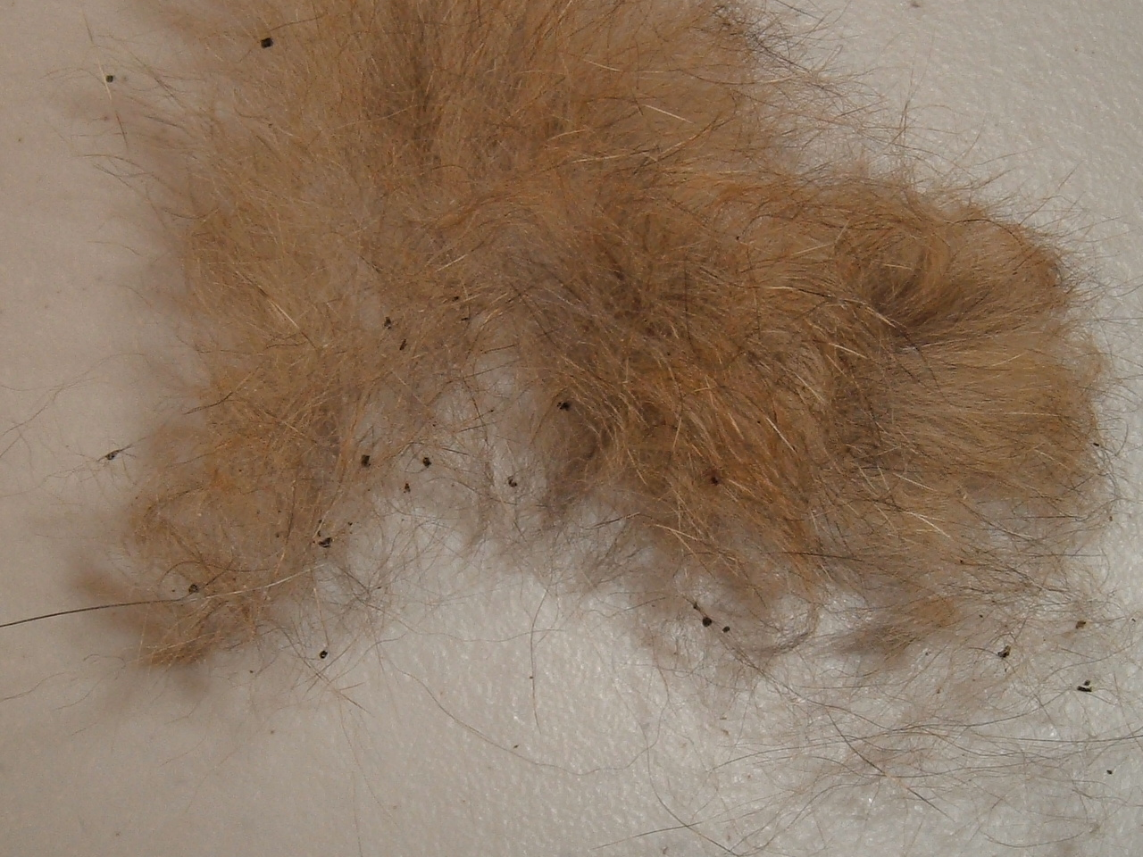 This was brushed out of the cat this morning